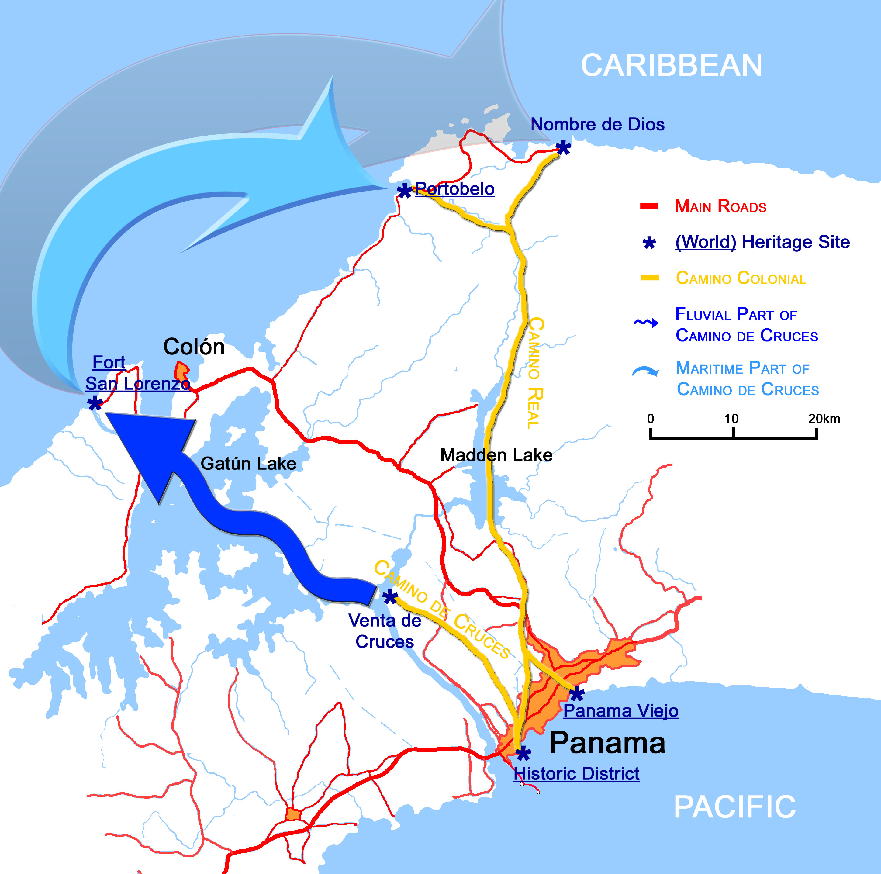 Location map of the colonial roads in Panama.